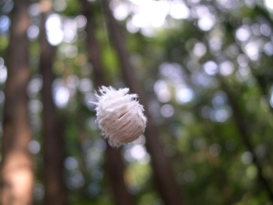 Parasite moth Epipomponia nawai (Lepidoptera:Epipyropidae). A 5th instar larva hanging down from high above. Yokohama, kanagawa, japan.